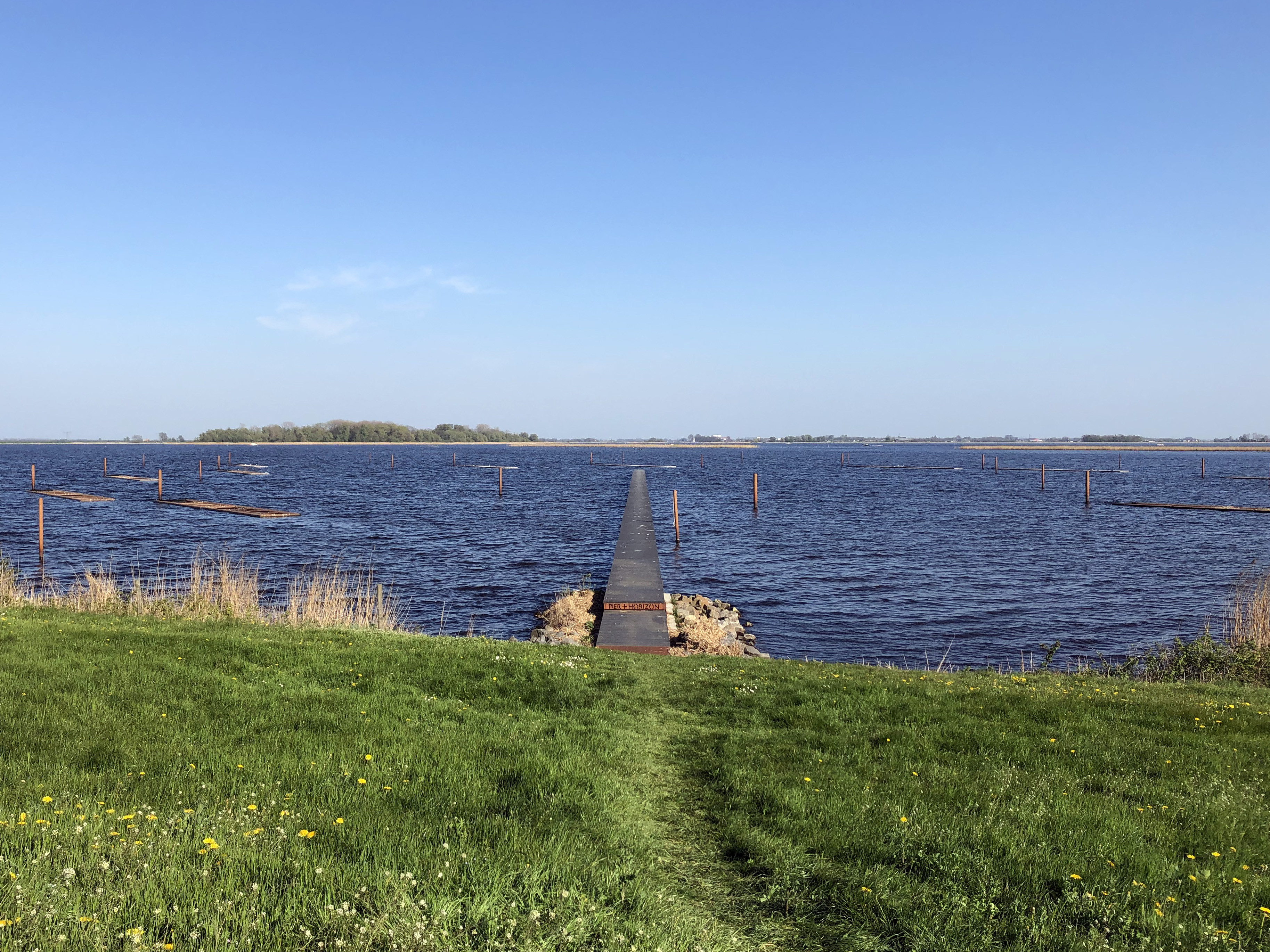 View of land art installation "PIER+HORIZON" by Paul de Kort in Flevoland, the Netherlands